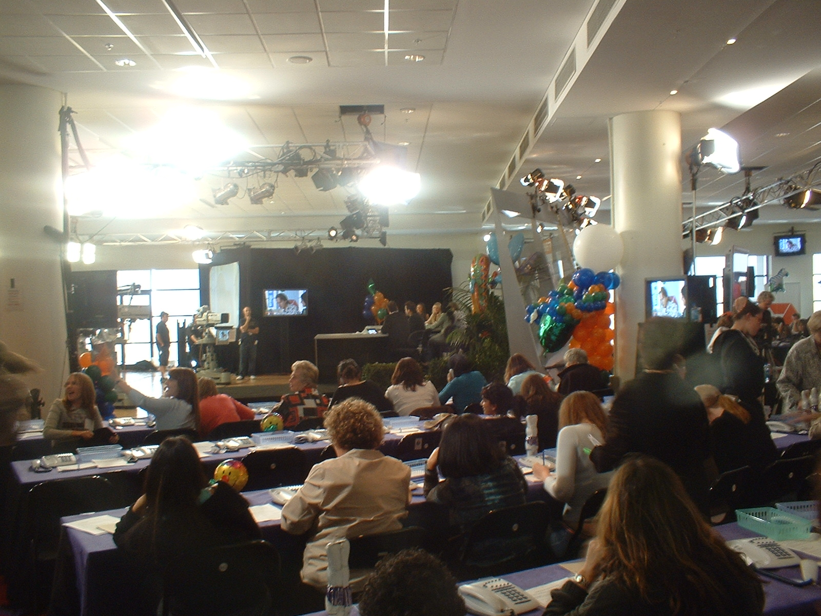 The phone room at the Good Friday Appeal, an annual Australian fundraising activity.